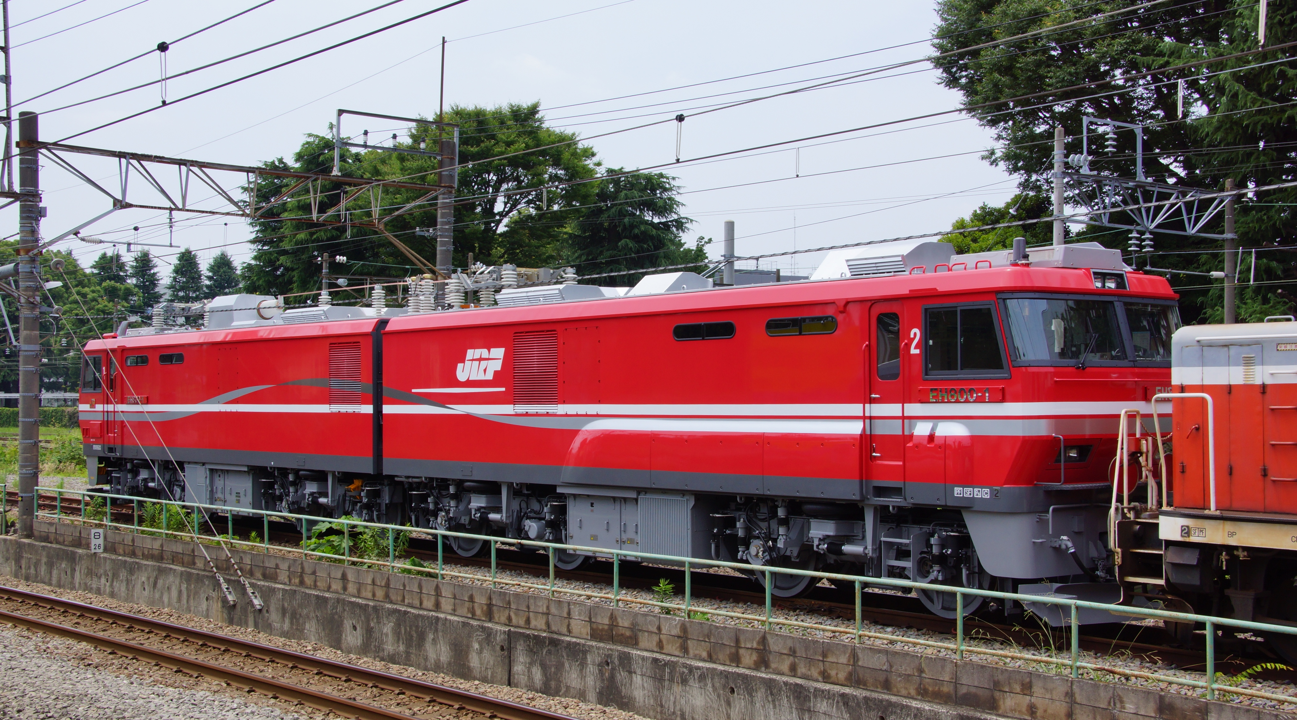 The first full-production JR Freight Class EH800 electric locomotive, EH800-1, at Kita-Fuchu on delivery from the Toshiba factory there to JR Freight's Goryokaku Depot in Hokkaido